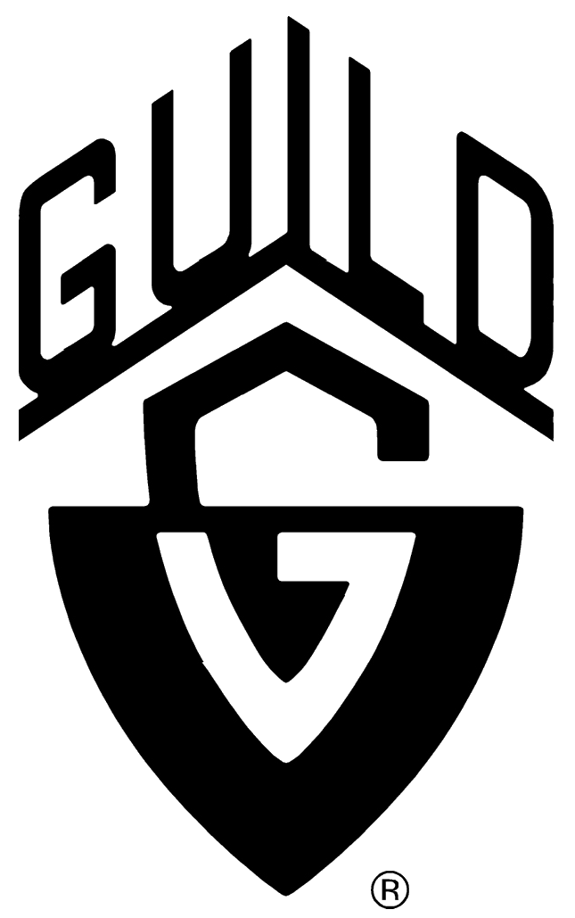 Logo of Guild, an American guitar manufacturer company.